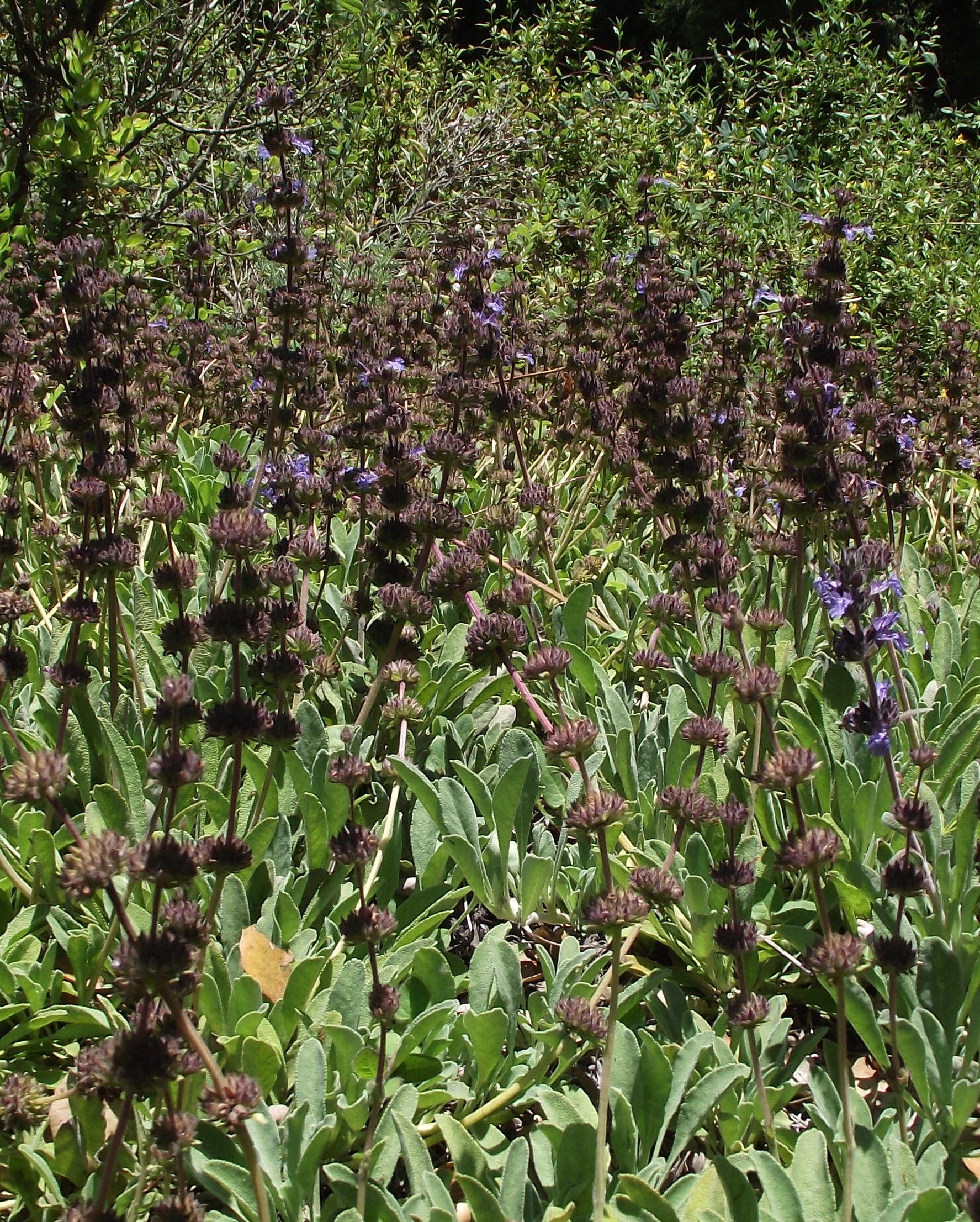 Salvia sonomensis at the UC Botanical Garden, Berkeley, California, USA. Identified by sign.